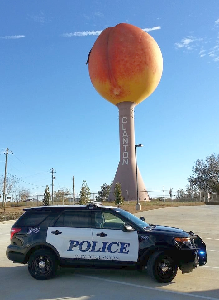 Patrol Unit in front of the Peach Tower.